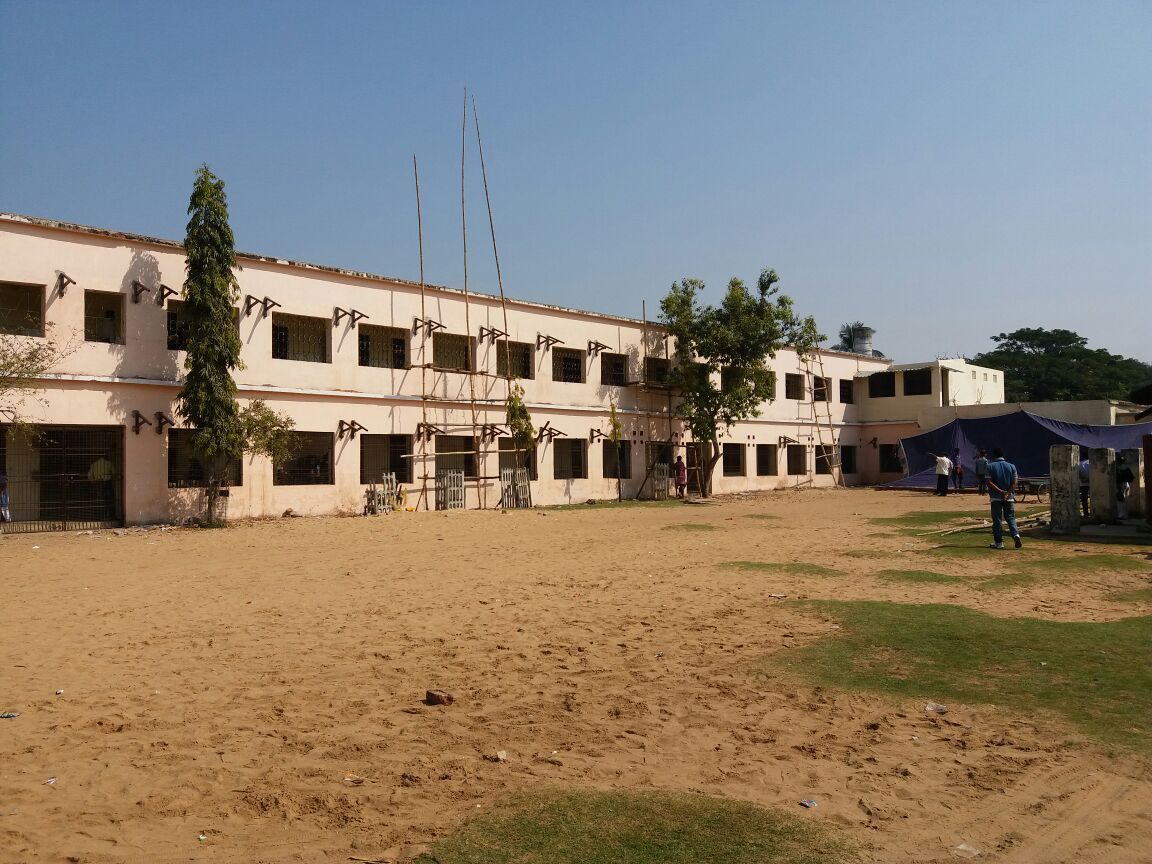 School Image